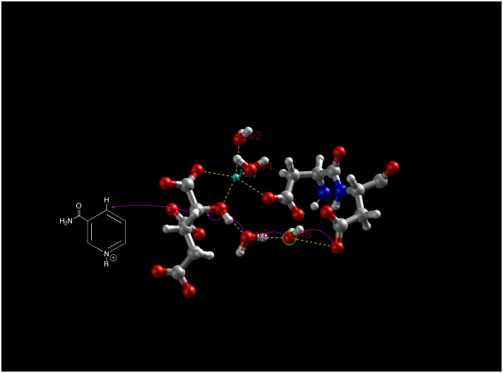 1st step in mechanism for isocitrate dehydrogenase.